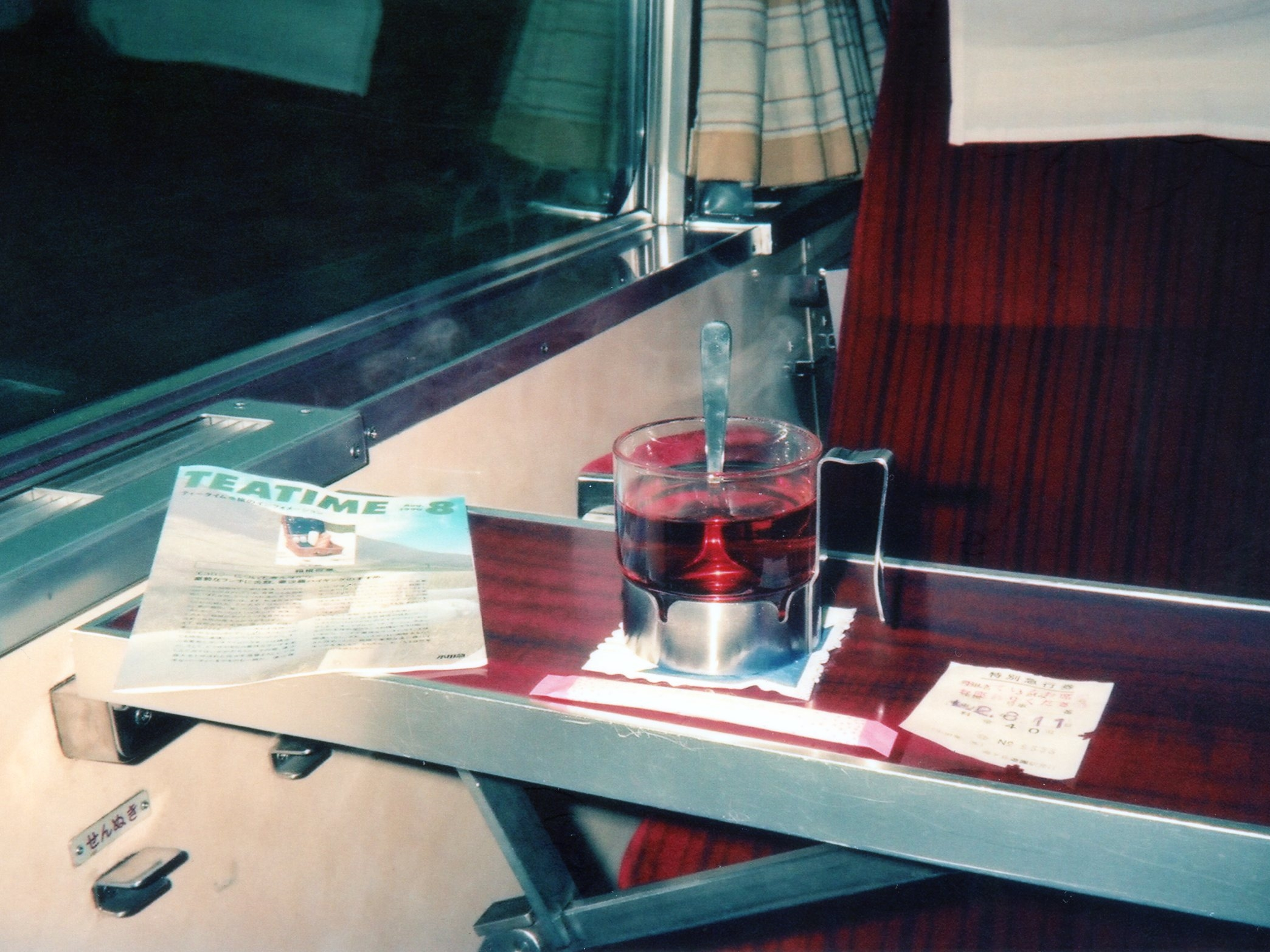 Tea sold in car of Odakyu Electric Railway type 3100 series "New Super Express(NSE)"